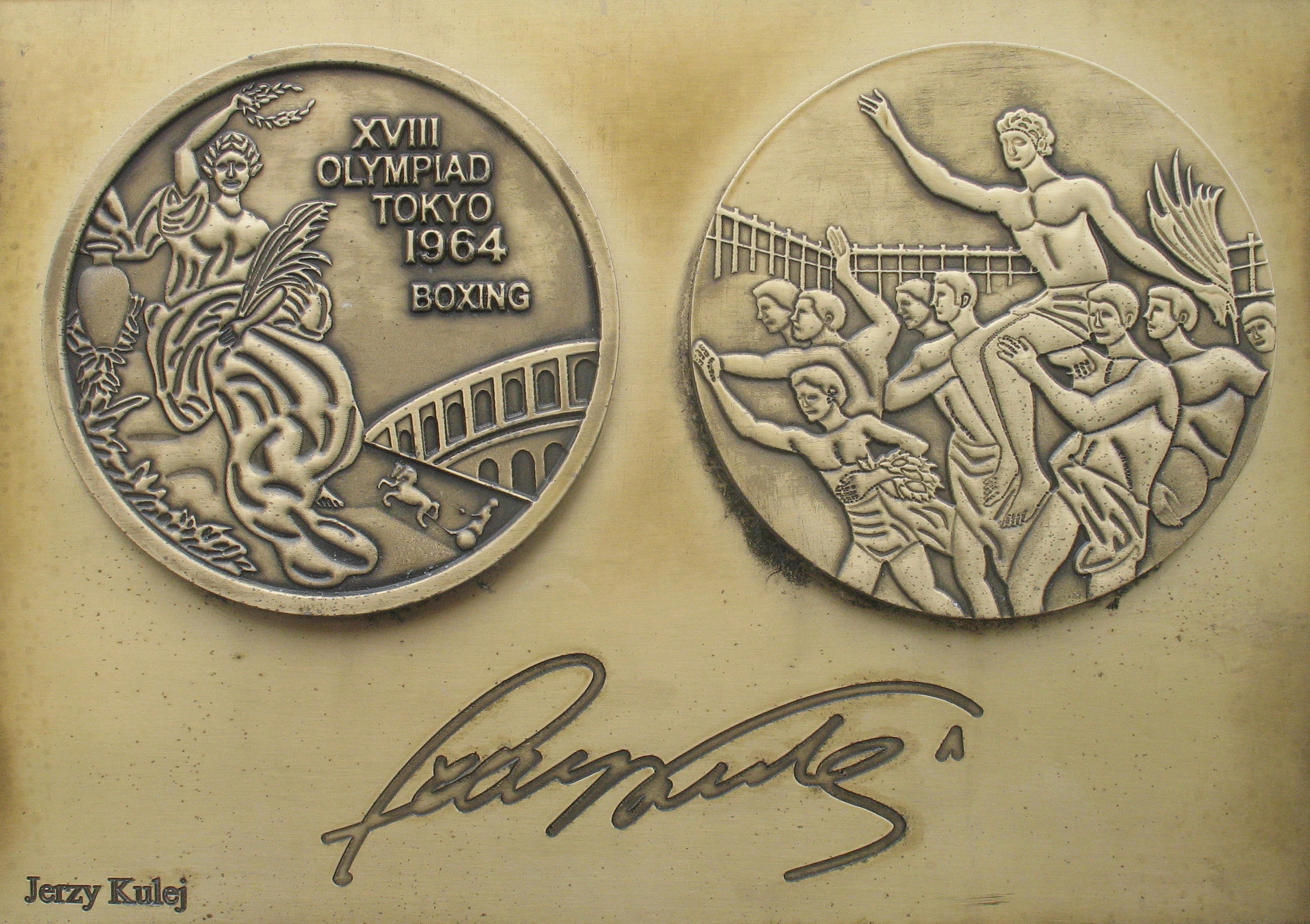 Jerzy Kulej medal & autograph in Avenue of Sport Stars Dziwnów